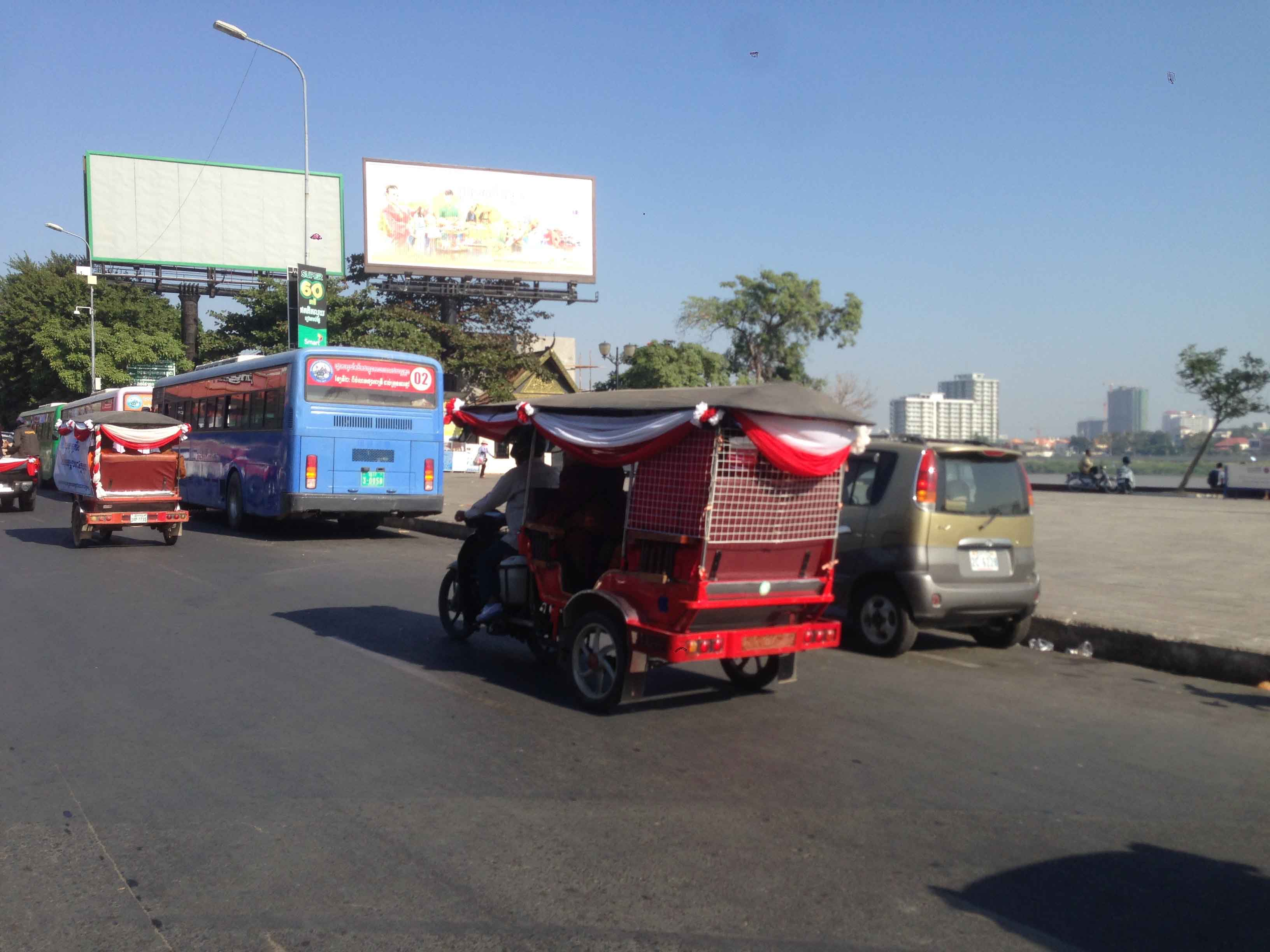 Buses lined up near Phnom Penh BRT Night Market terminus station on Sisowath Quay